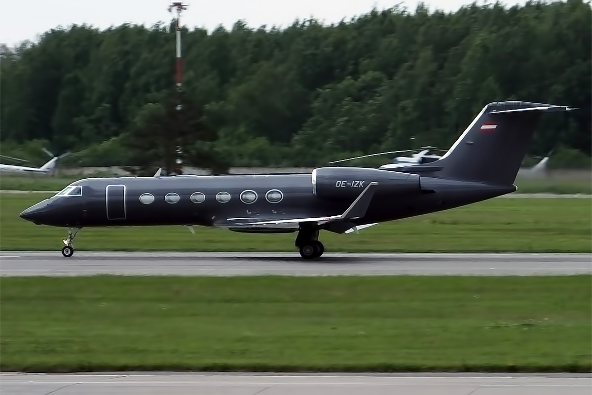 MJet, OE-IZK, Gulfstream G450